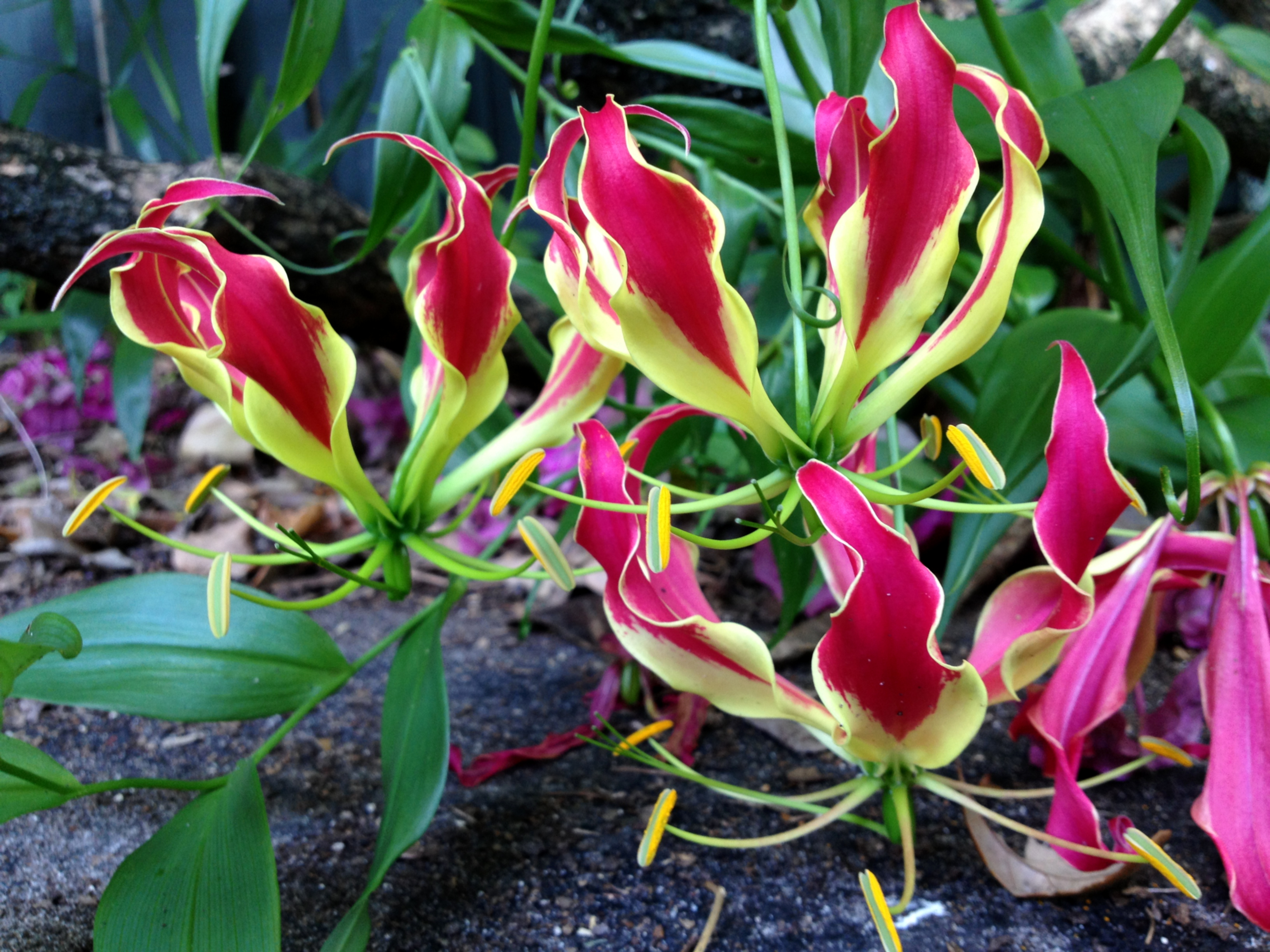 Gloriosa (genus) Lily